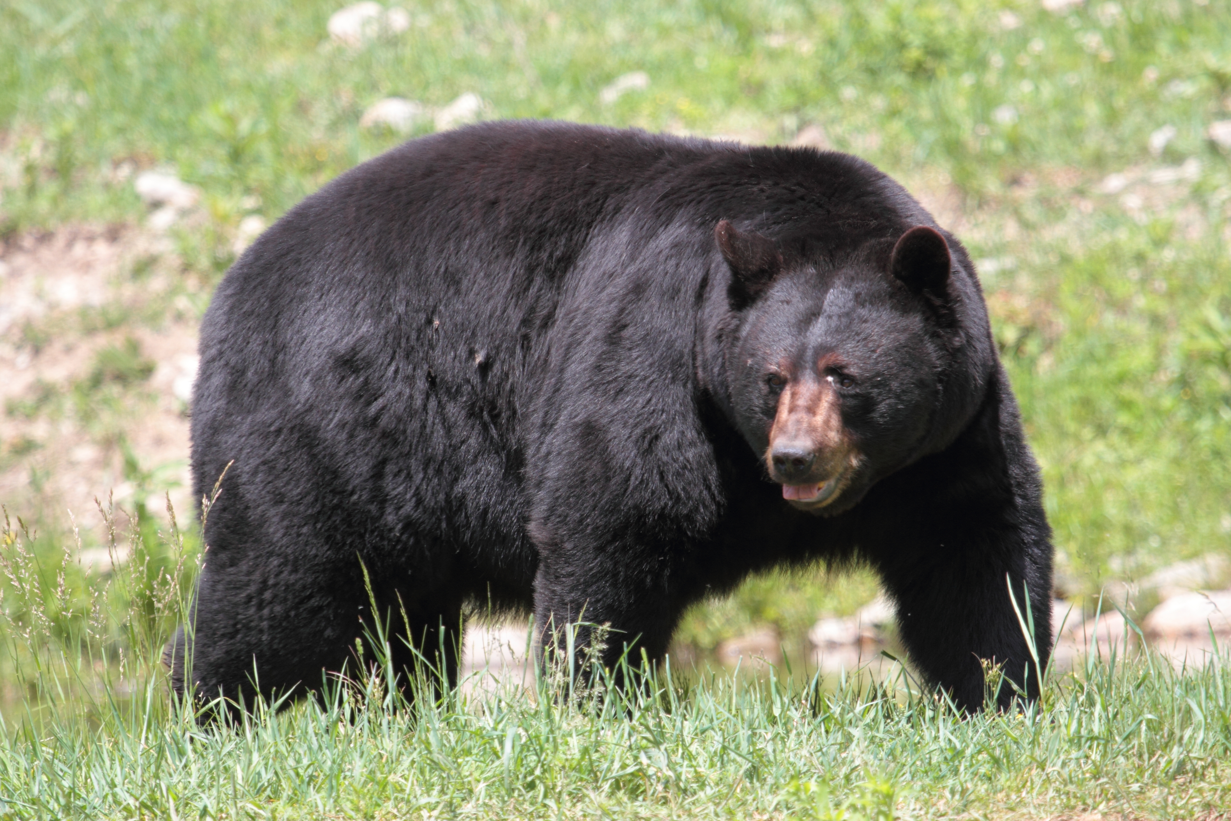 American black bear, Parc Omega, Quebec, Canada